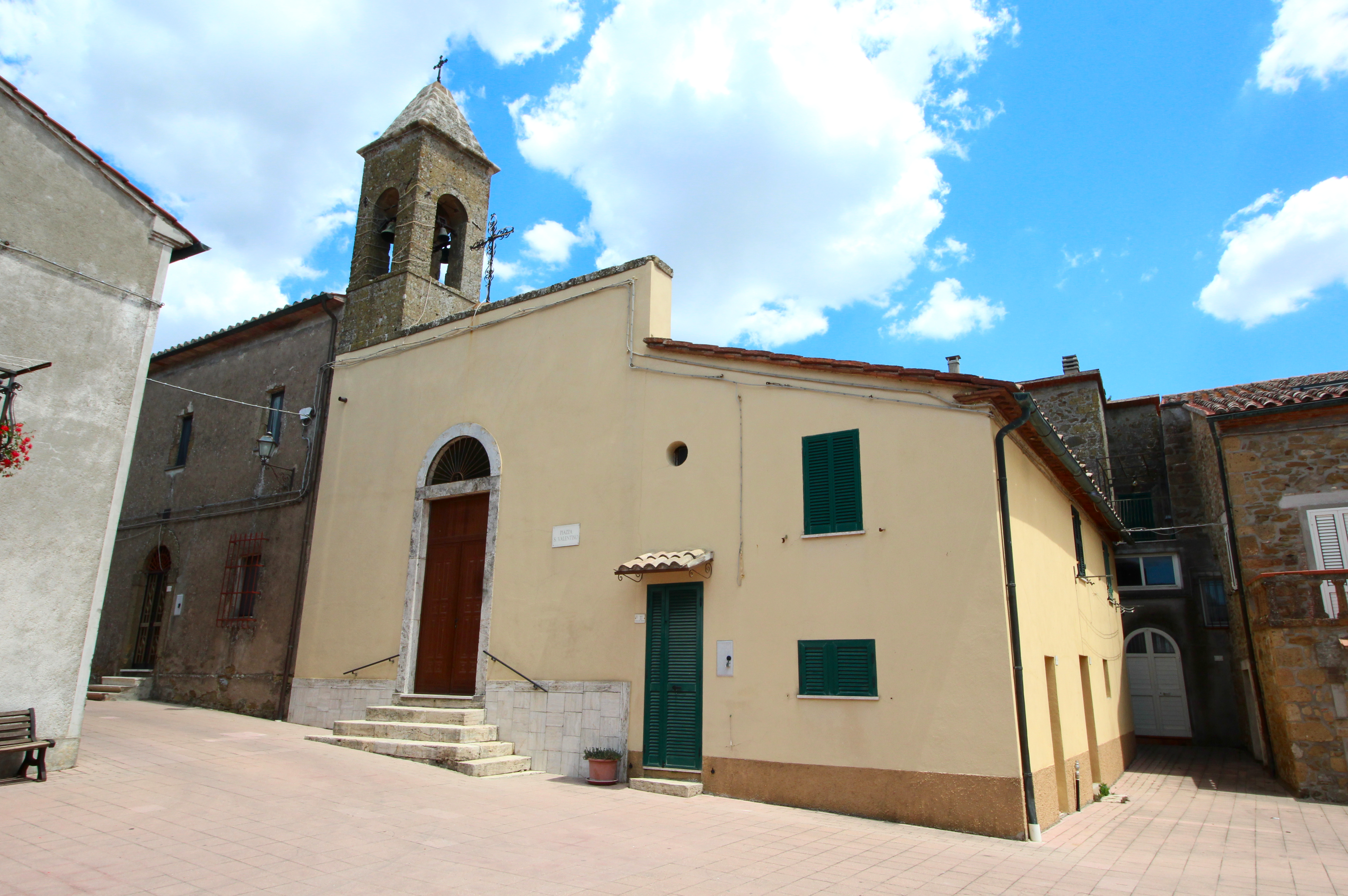 Church San Valentino, San Valentino, hamlet of Sorano, Province of Grosseto, Tuscany, Italy